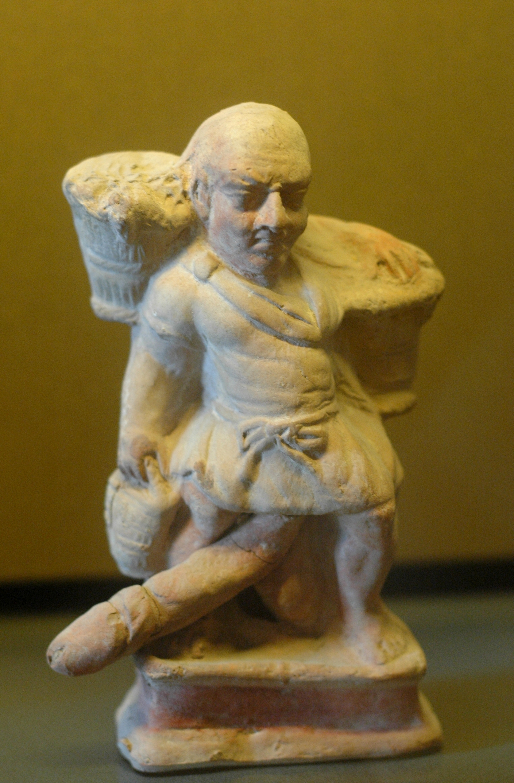 Grotesque: ithyphallic, bald dwarf slave carrying two baskets. Terracotta, Myrina, 1st century AD.